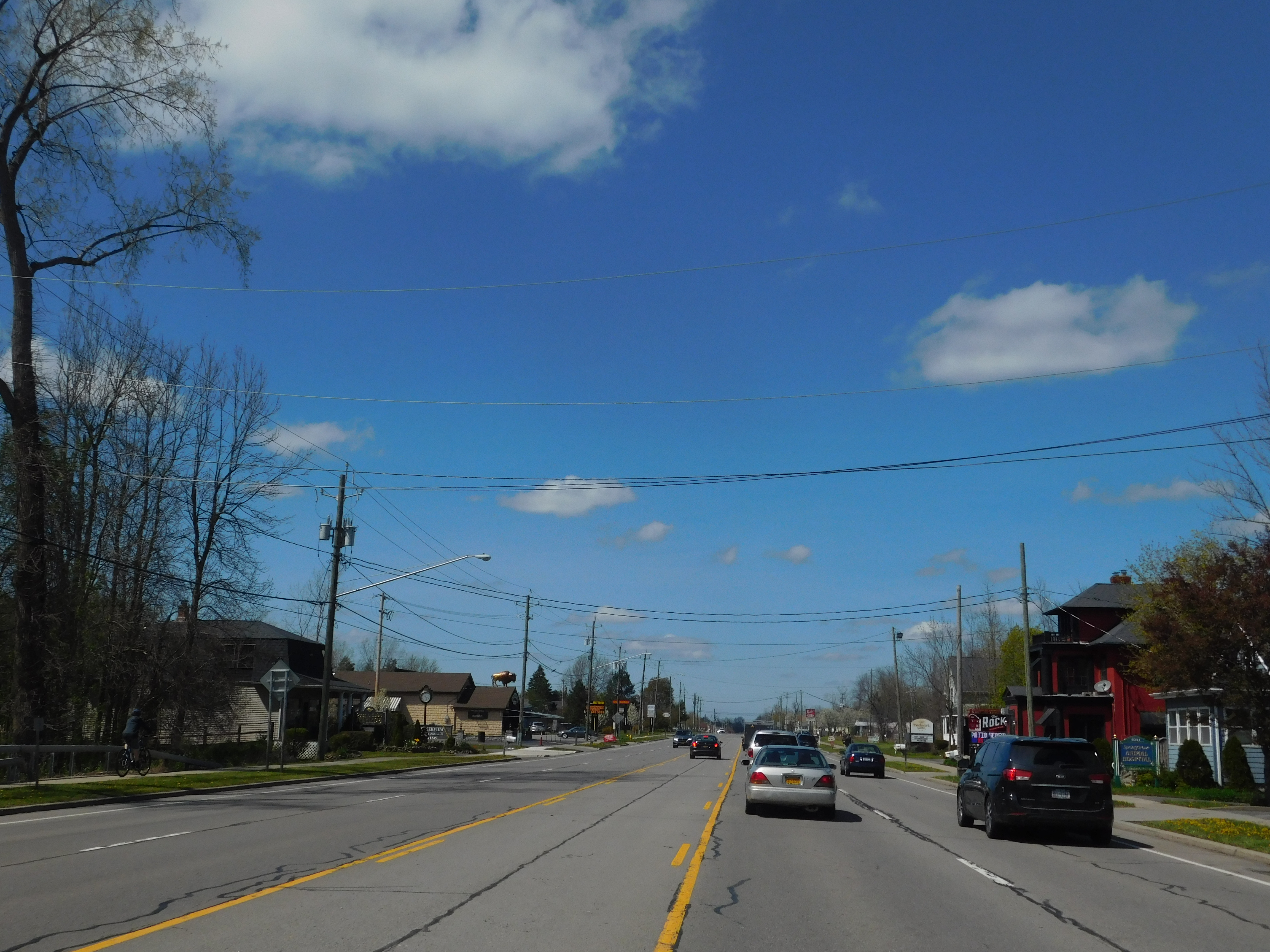 New York State Route 78 northbound in East Amherst, New York.